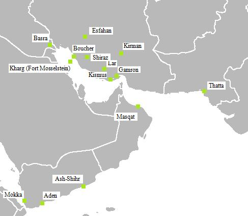 Former Possessions of the VOC in the Middle East.